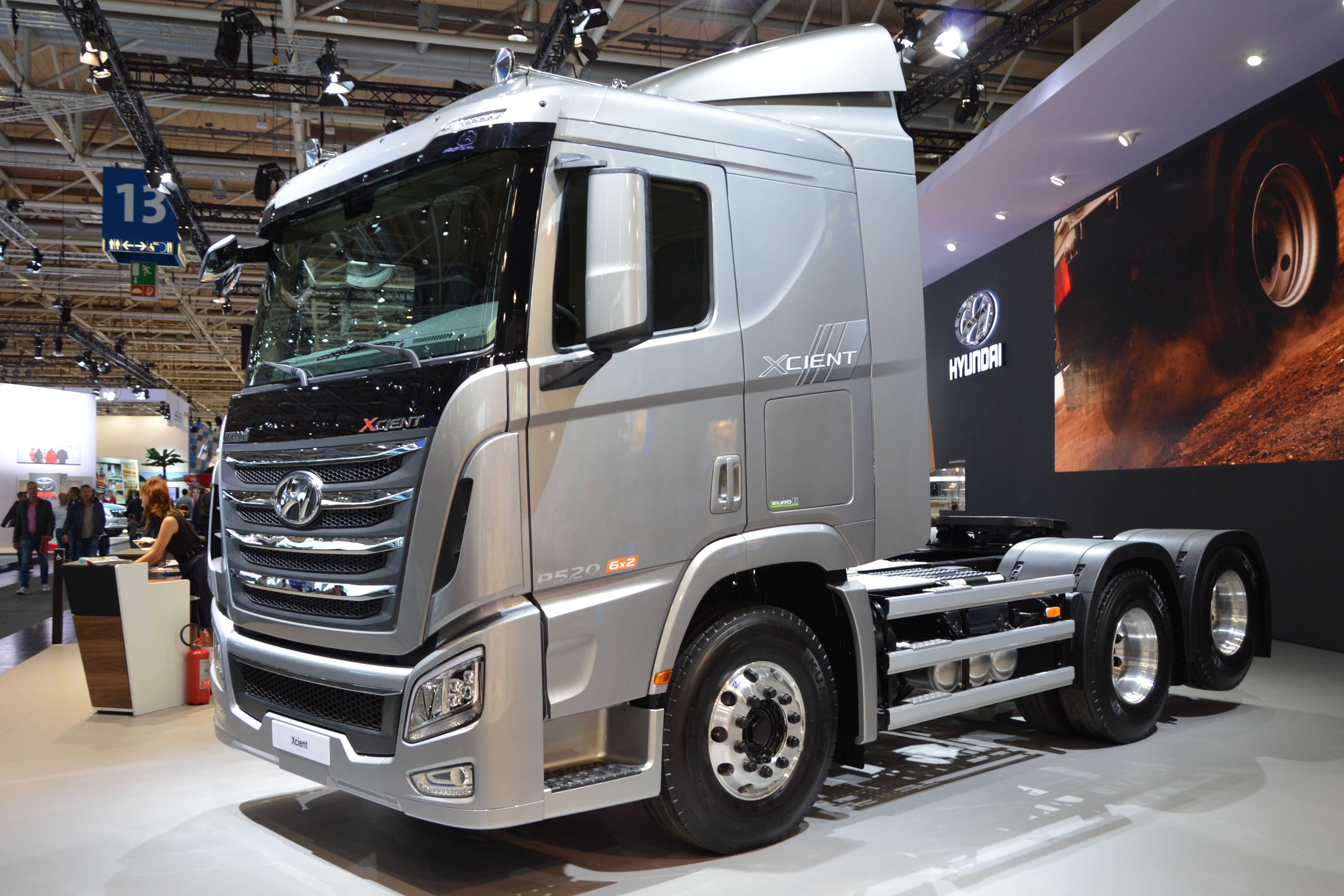 Hyundai Xcient 6x2 tractor M/T Standard Roof. Engine: D6CG (L-engine). Not yet available in European market (2016). Photo taken at exhibition IAA 2016 in Hanover, Germany.